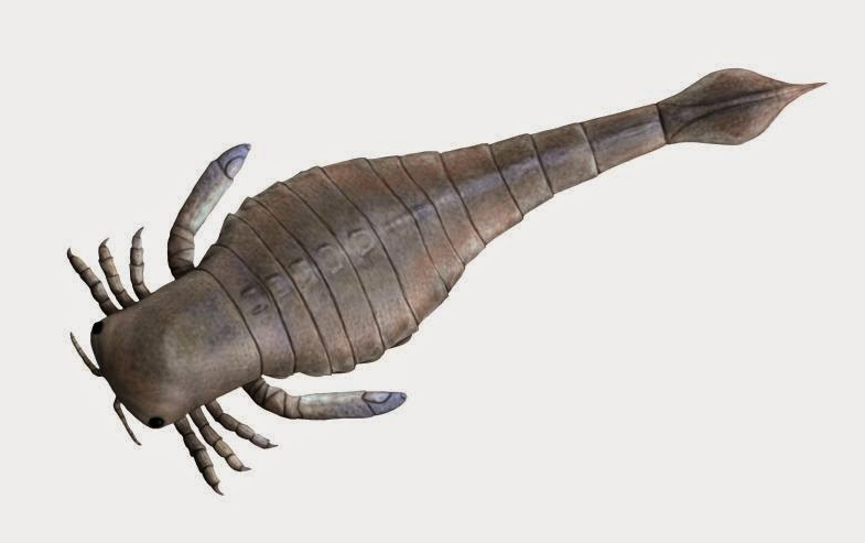 Life reconstruction of Slimonia acuminata